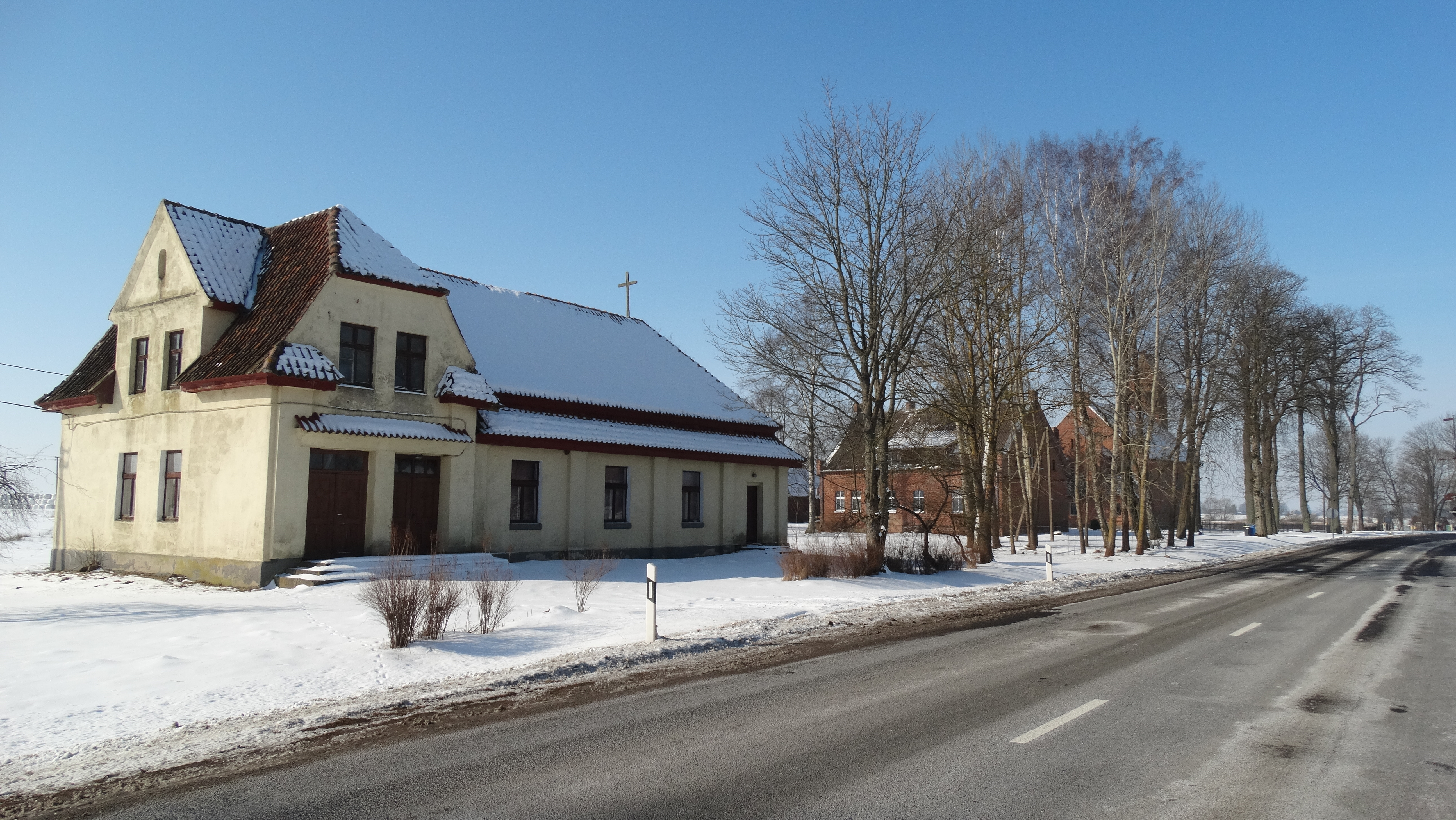 Rukai, Pagėgiai Municipality, Lithuania